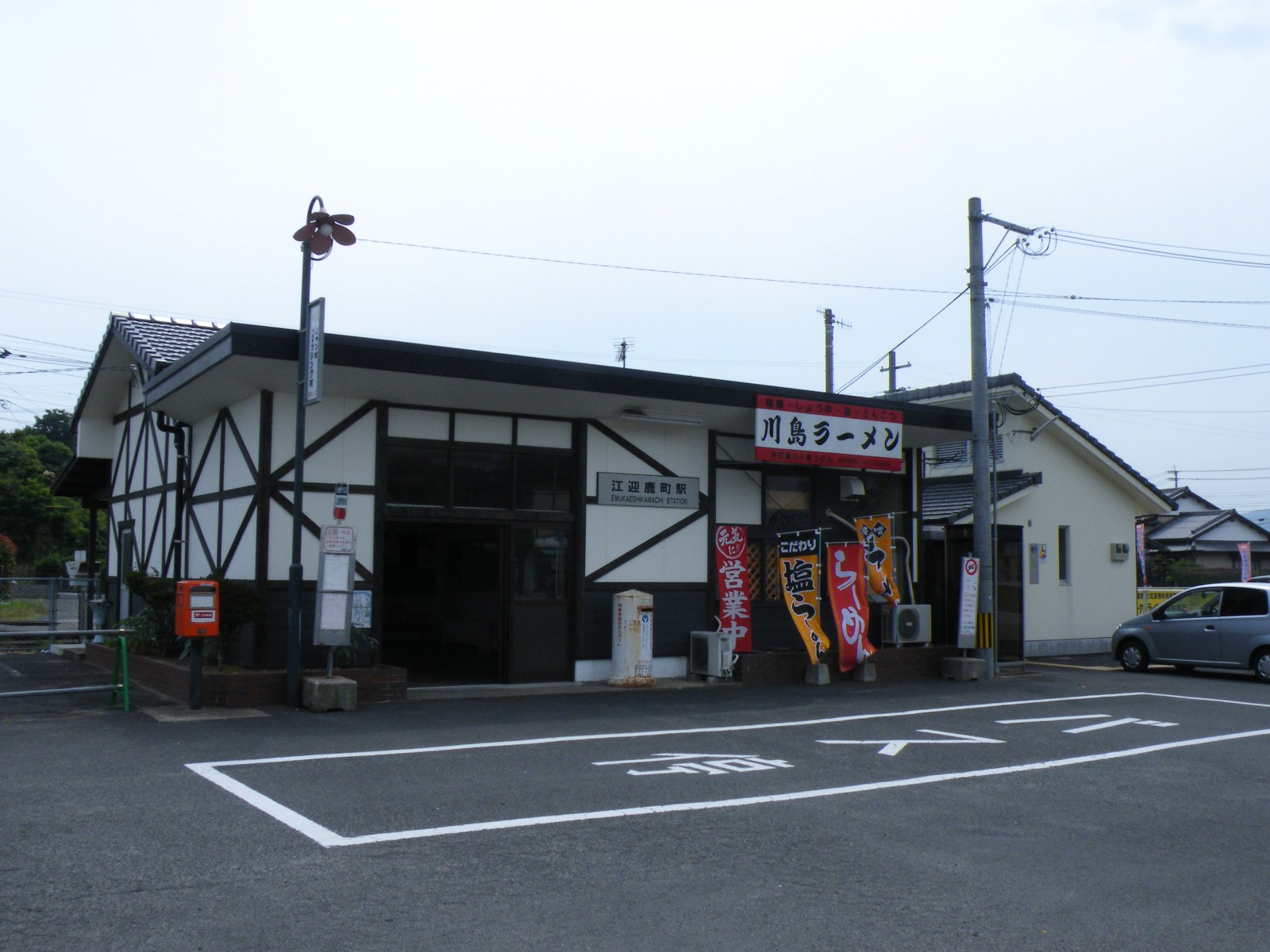 Matsuura Railway Emukae-Shikamachi Station